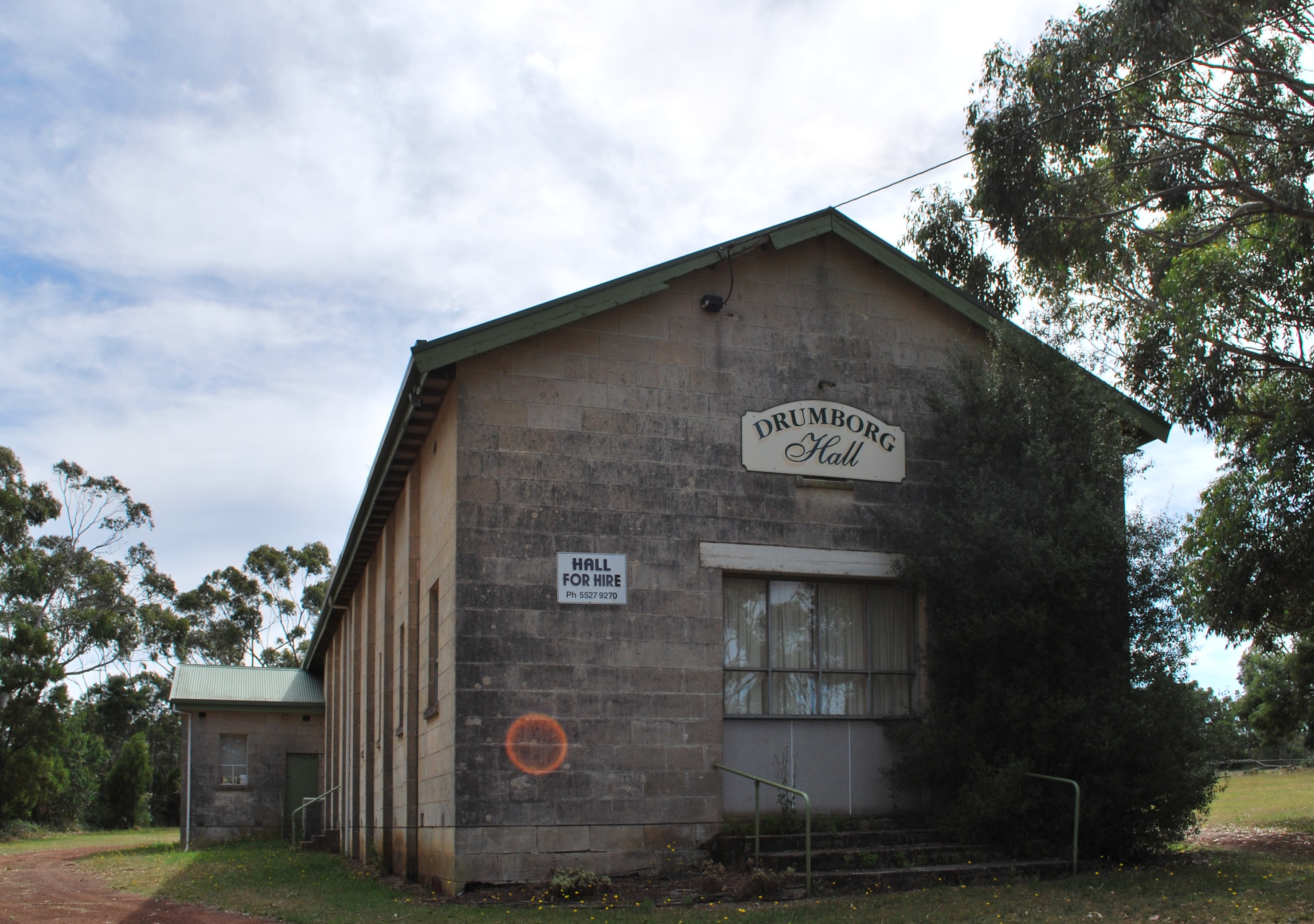 Public hall at Drumborg, Victoria